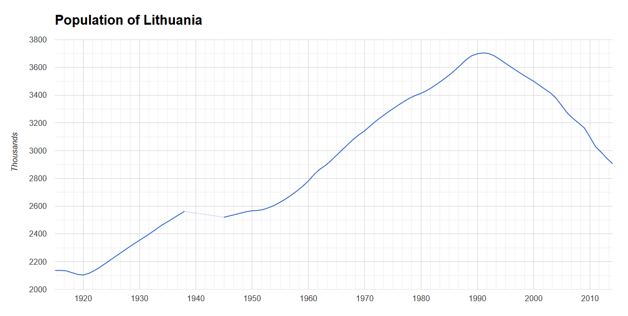 Updated graph of population of Lithuania based on data from the current version of the article Population of Lithuania